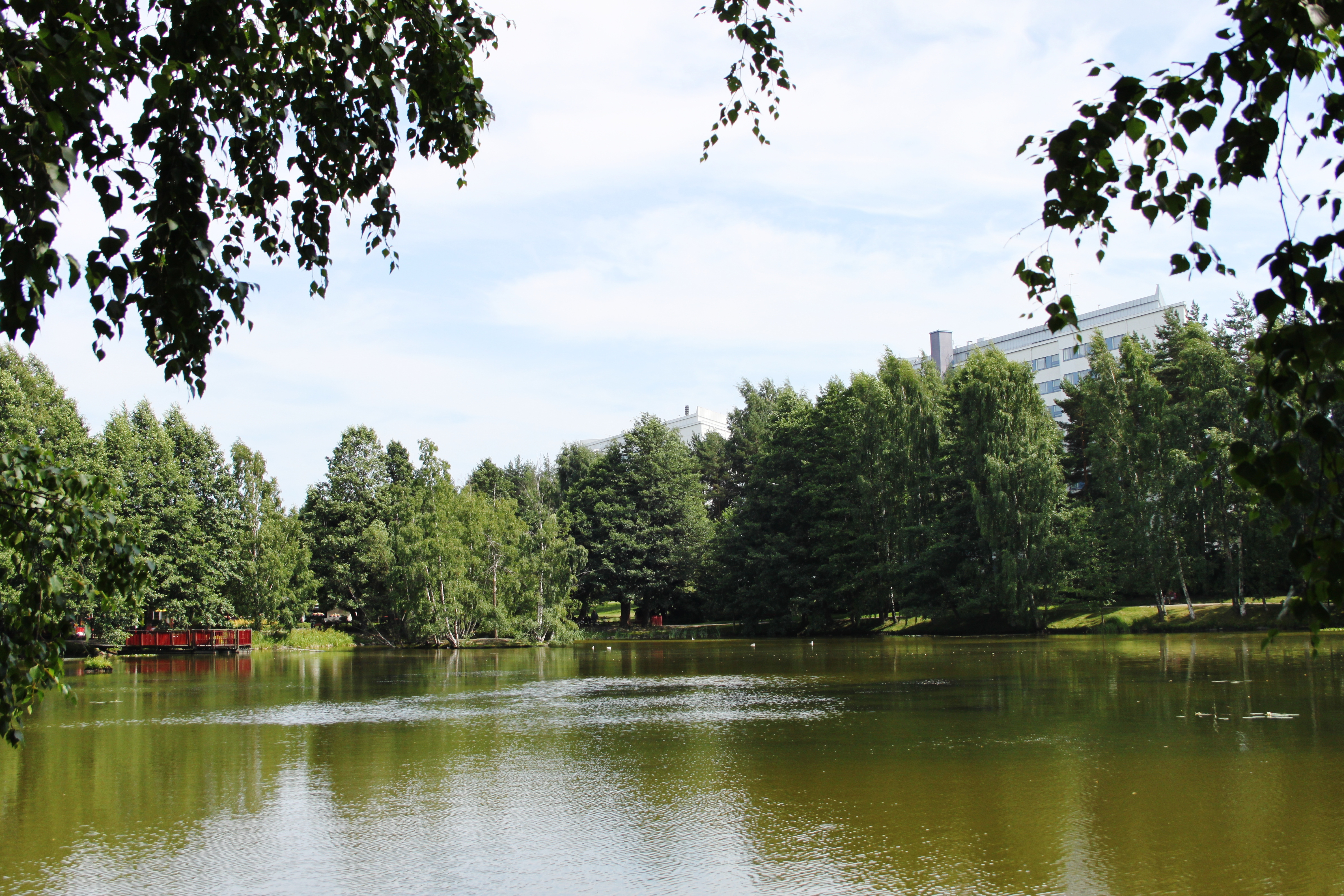 Kangaslampi pound in Vuosaari, Helsinki